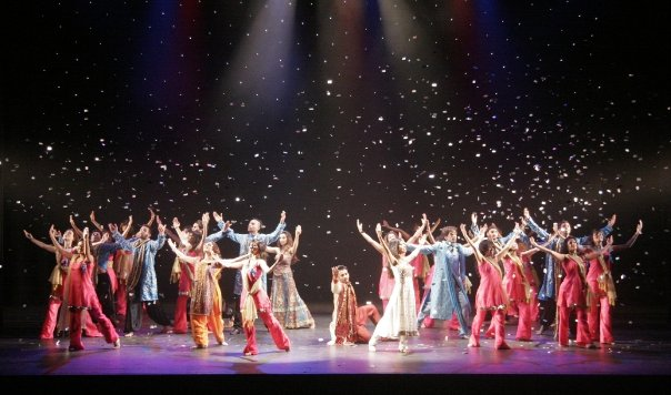 Bollywood Dancers Bolly Flex performing live. Essence the Bollywood Dance Spectacular